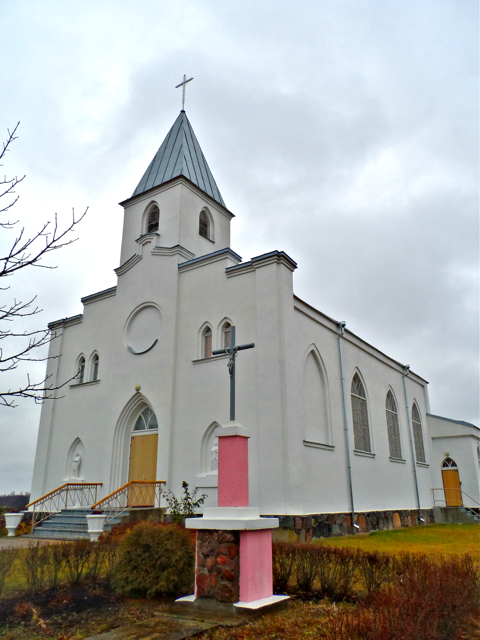 Demene Roman Catholic Church in Daugavpils Municipality.